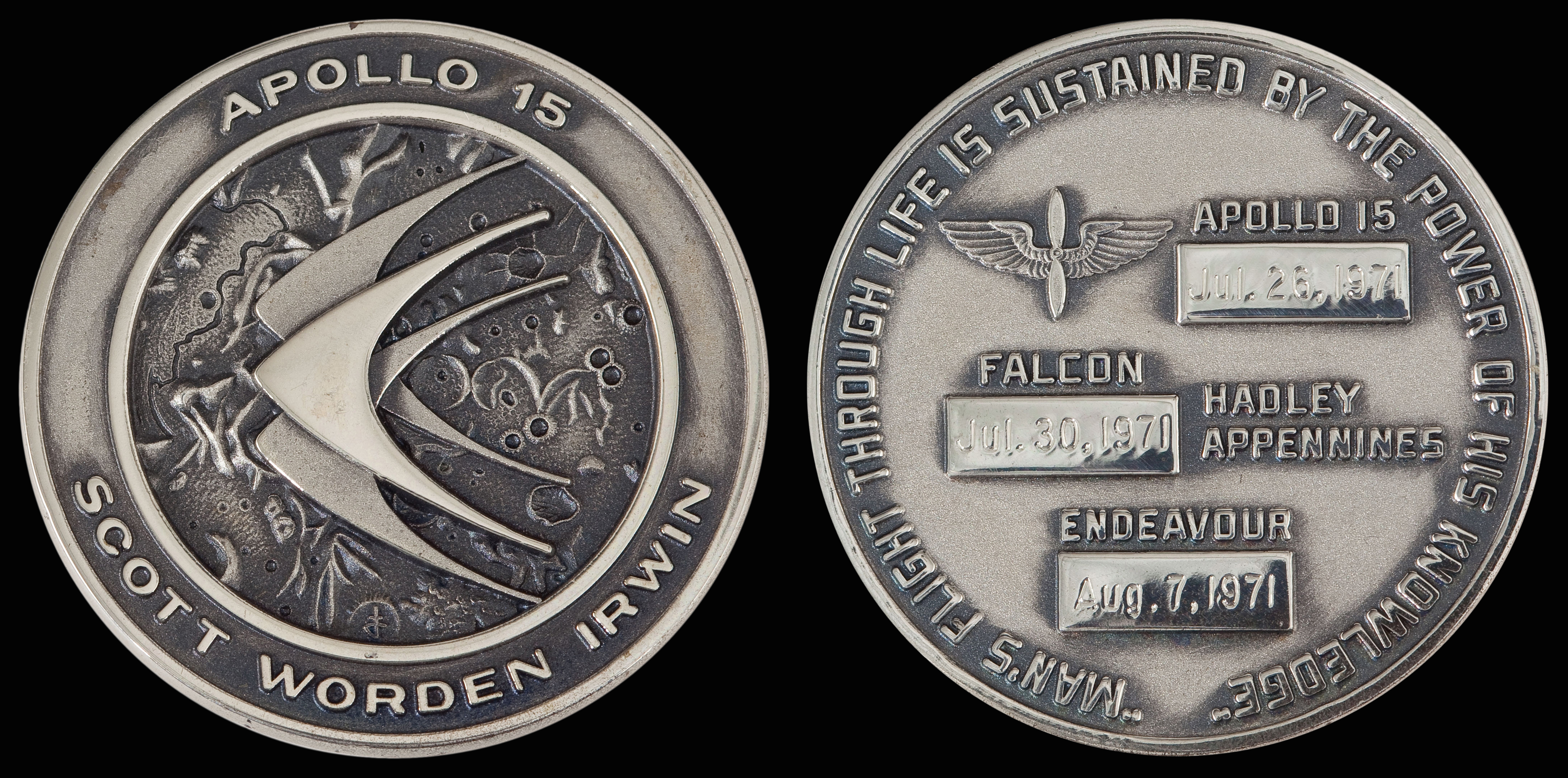 Apollo 15 (S71-30463, May 1971) Flown Silver Robbins Medallion (SN-92), from the collection of Rusty Schweickart (6075-40156)